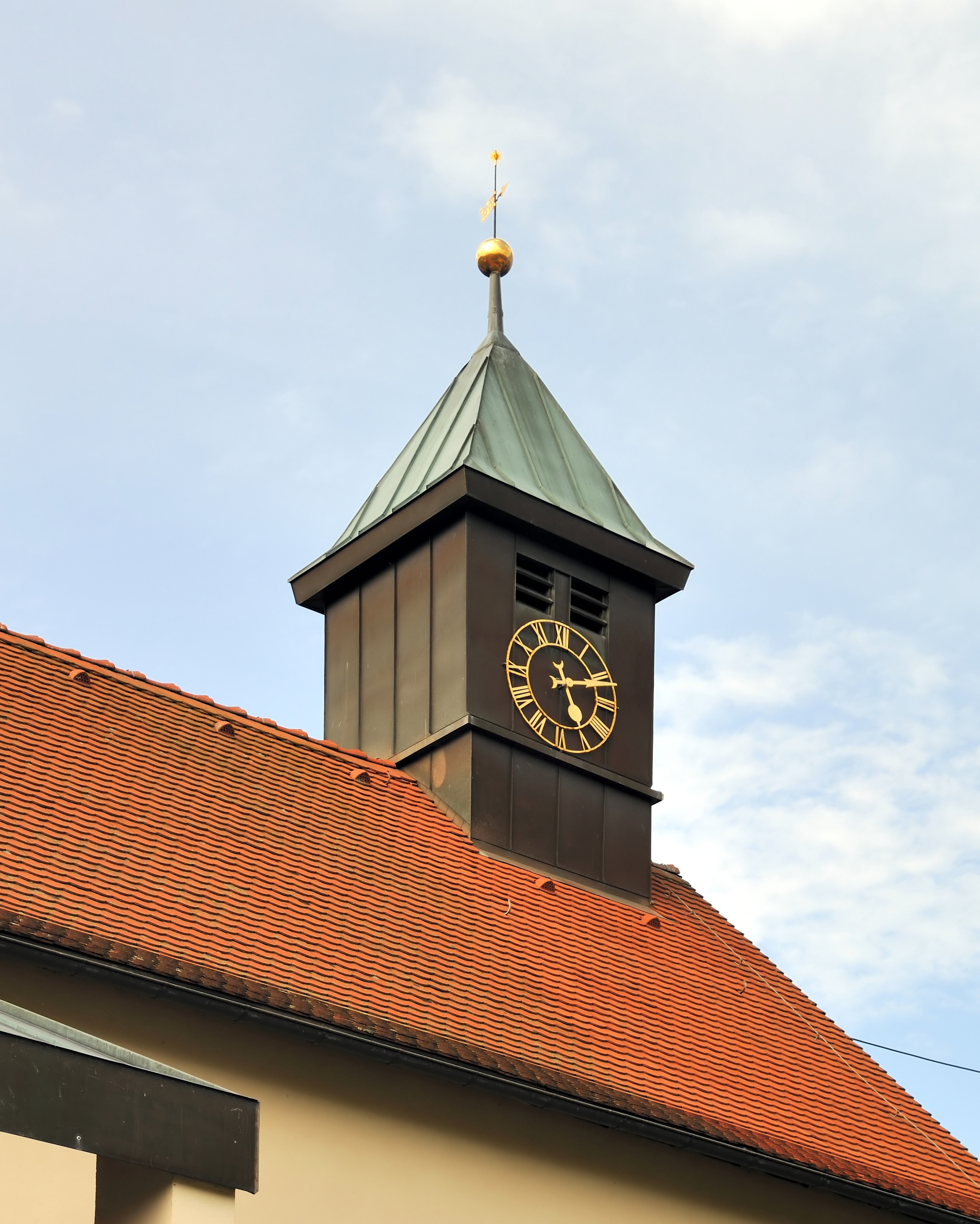 Vogelbach: Protestant Church